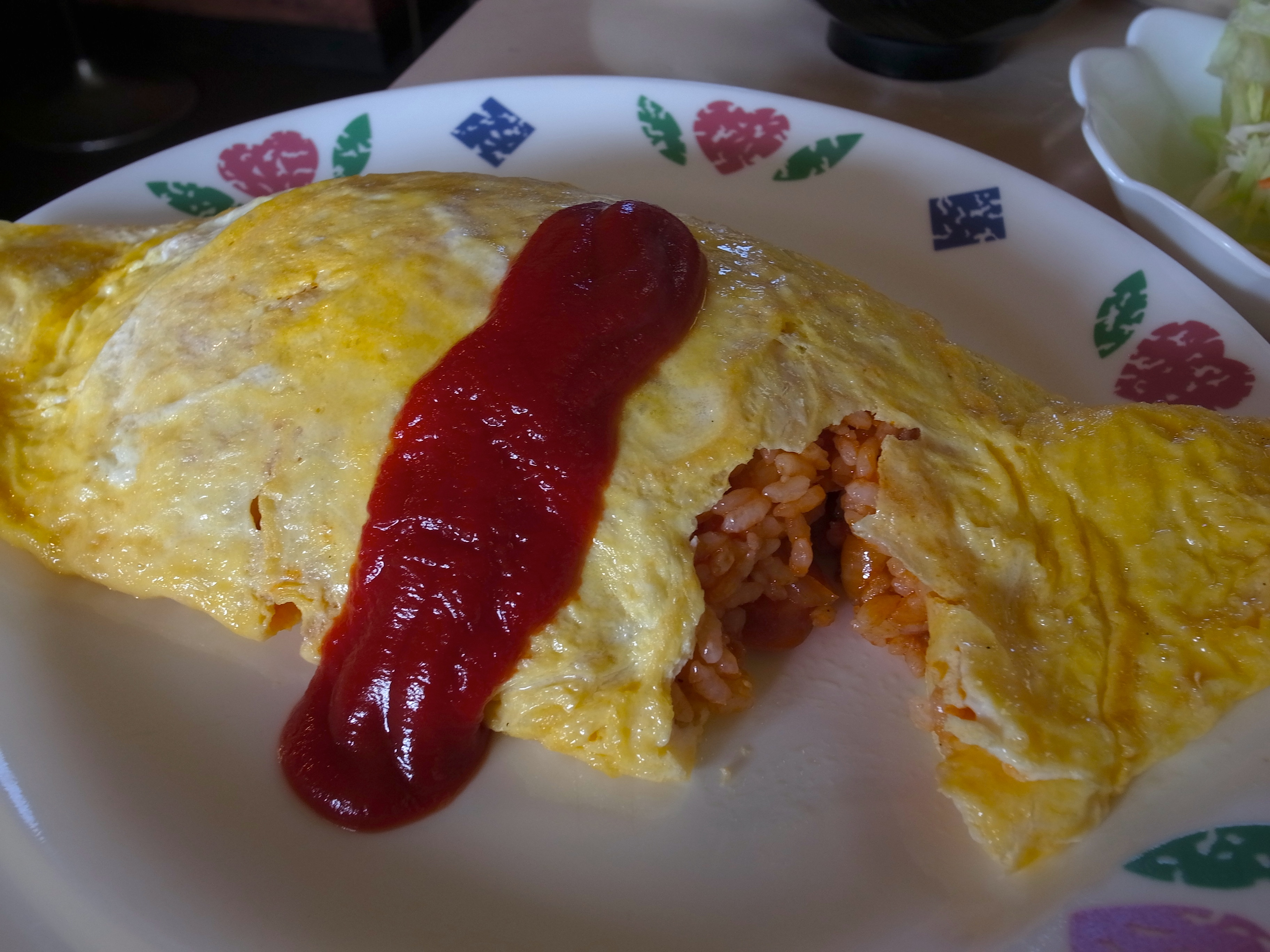 Omurice cut open